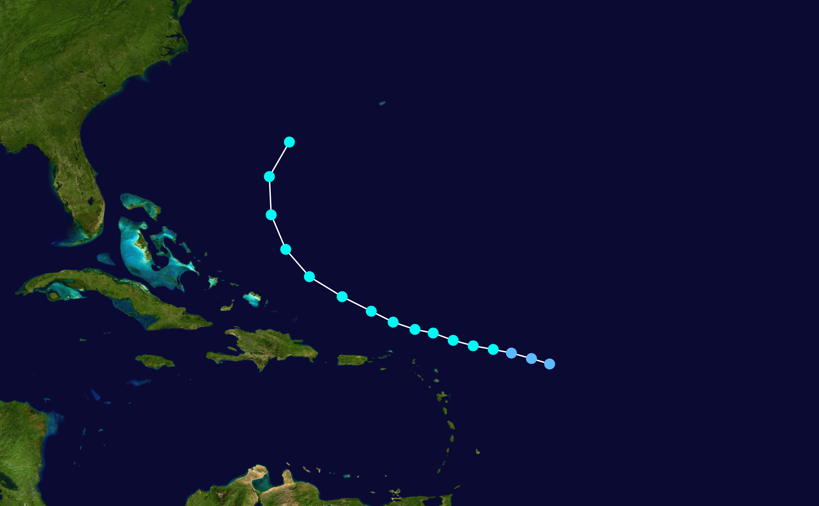 Tropical Storm Juliet (1978) track. Uses the color scheme from the Saffir-Simpson Hurricane Scale.